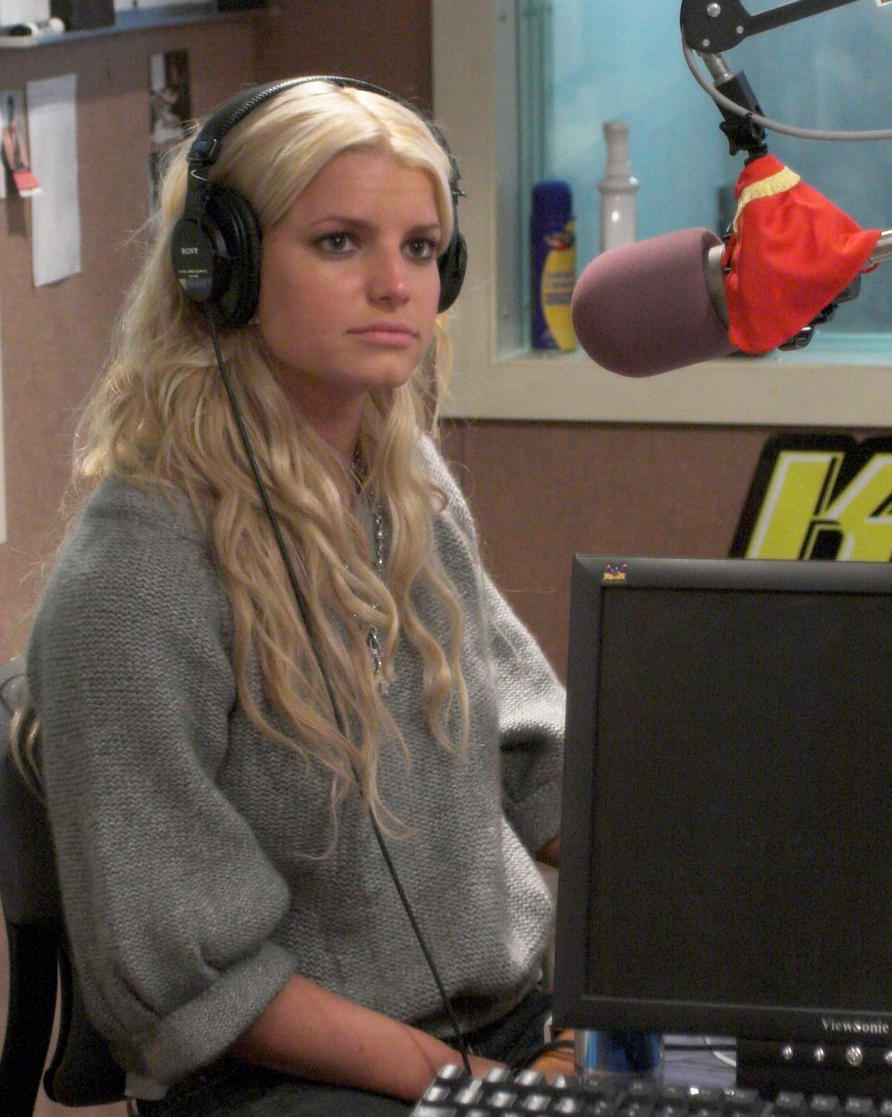 Jessica Simpson visits the studios of Kiss 106.1 (KBKS-FM) in Seattle, Washington.